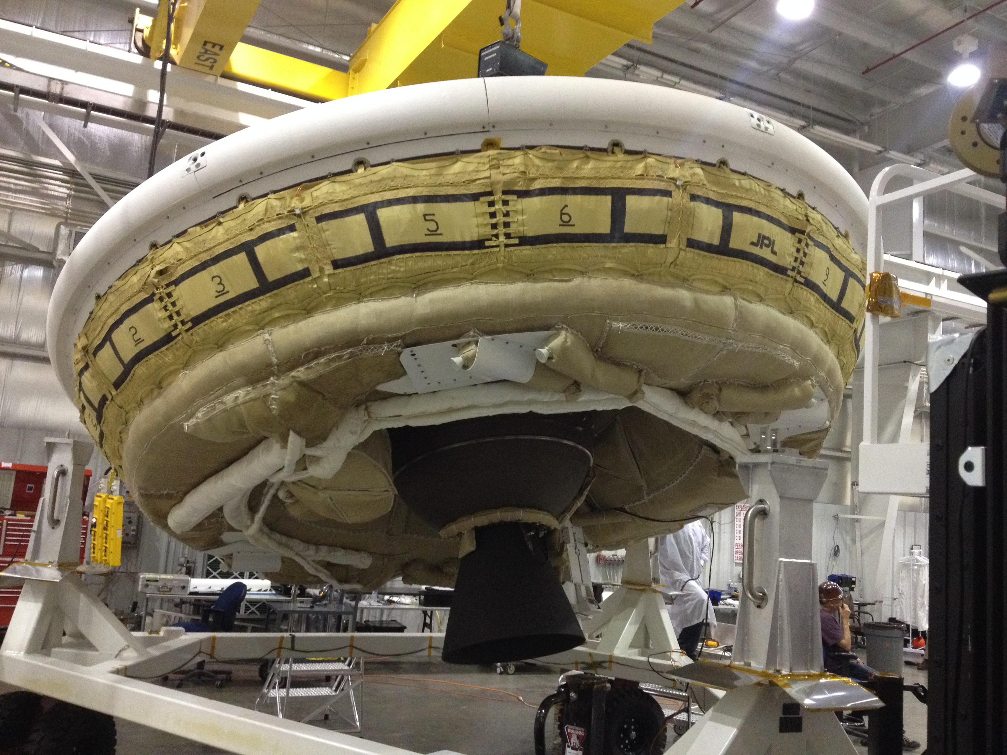 A saucer-shaped test vehicle holding equipment for landing large payloads on Mars is shown in the Missile Assembly Building at the U.S. Navy's Pacific Missile Range Facility in Kaua'i, Hawaii. The vehicle, part of the Low-Density Supersonic Decelerator project, will test an inflatable decelerator and a parachute at high altitudes and speeds over the Pacific Missile Range this June. A balloon will lift the vehicle to high altitudes, where a rocket will take it even higher to the top of the stratosphere at several times the speed of sound. This image was taken during a "hang-angle" measurement, in which engineers set the vehicle's rocket motor to the appropriate angle for the high-altitude test. The nozzle and the lower half of the Star-48 solid rocket motor are the dark objects seen in the middle of the image below the saucer. The Low-Density Supersonic Decelerator Project is managed by JPL for NASA's Space Technology Mission Directorate in Washington.